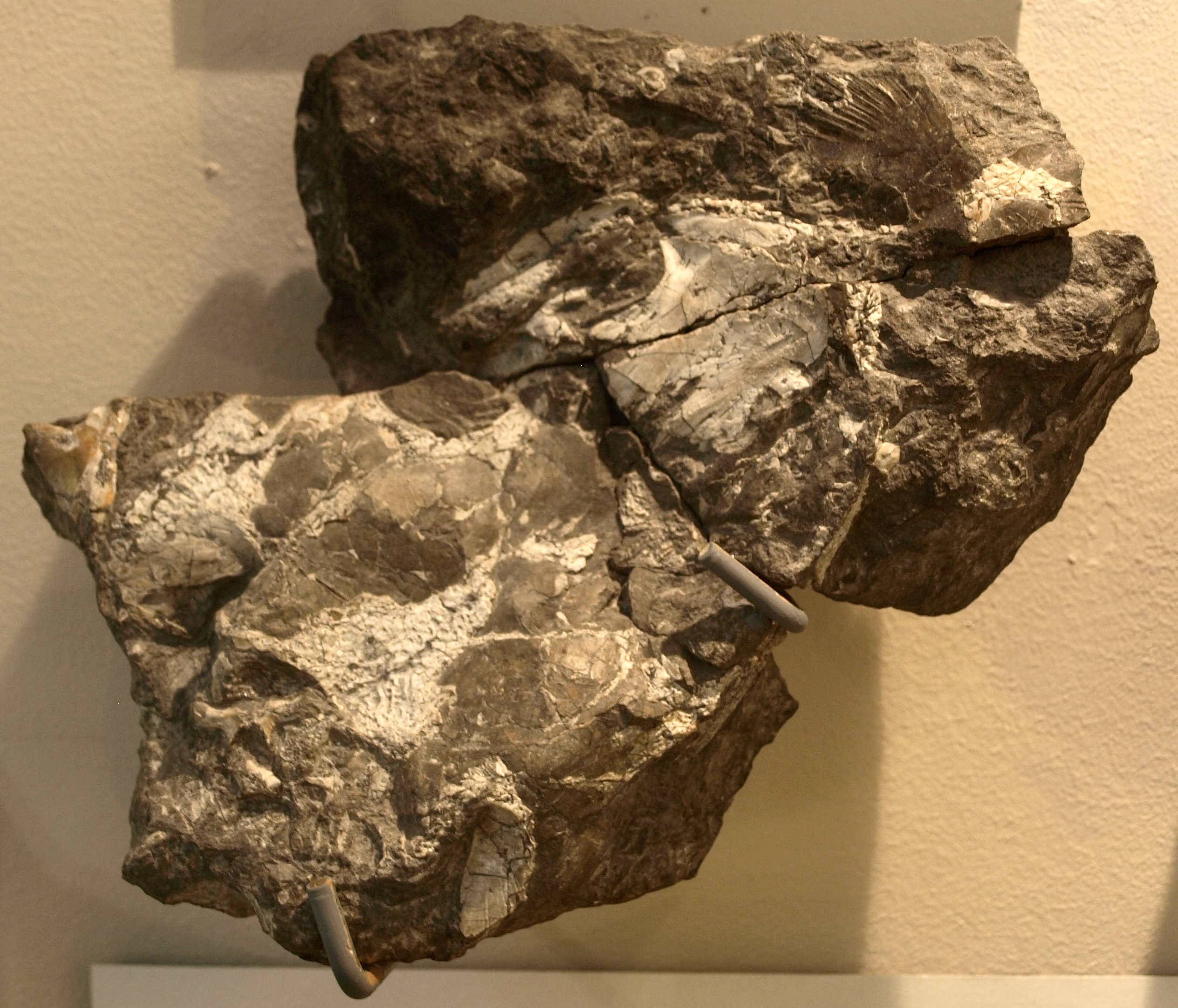 A badly preserved skull of Dendrerpeton, a temnospondyl tetrapod from the Pennsylvanian period, on display at the Redpath Museum, Montreal.